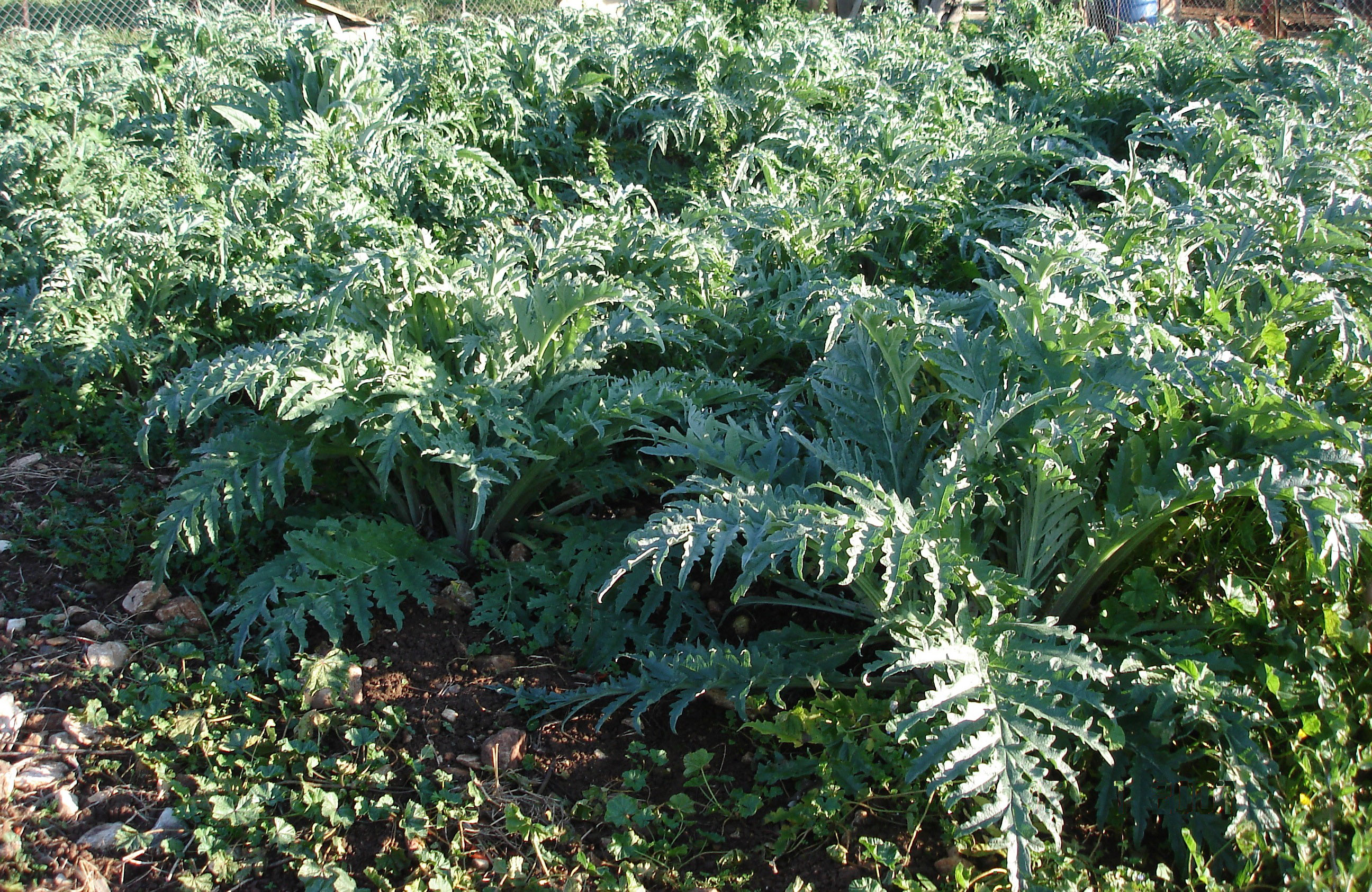 Cynara cardunculus